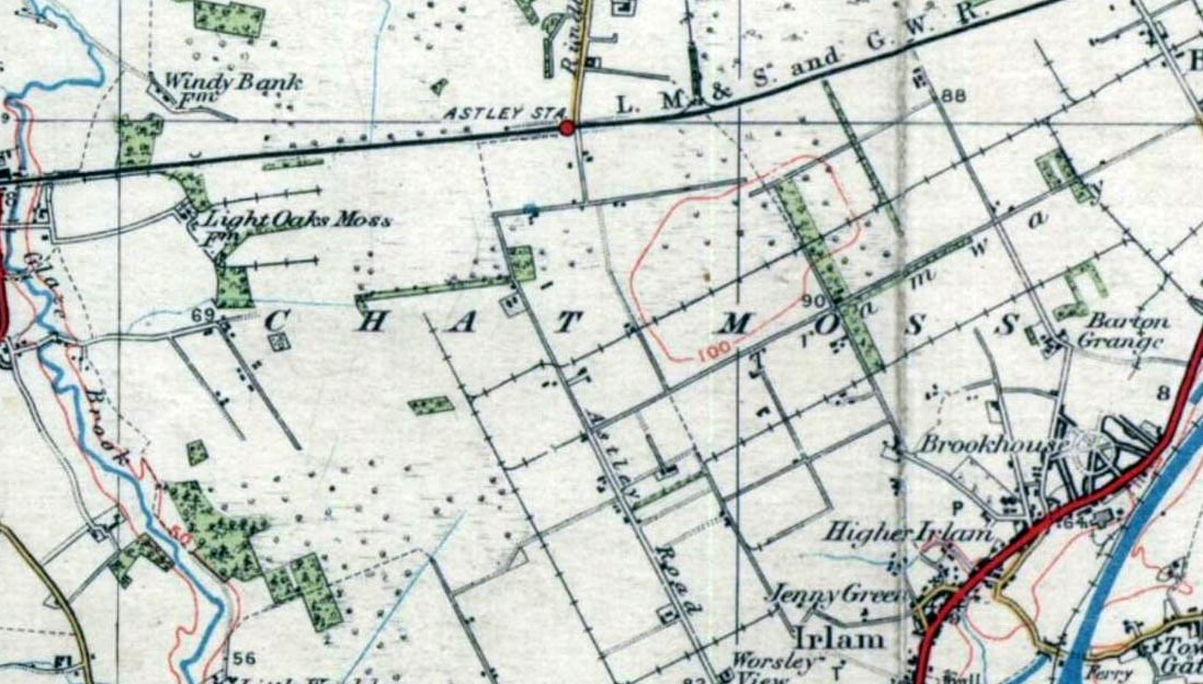 The center map is Bolton and Manchester, England and Wales Popular (4th) edition. Published in 1937. Based on 1924 mapping. Donated by Joyce Whitchurch. Cropped to show Chat Moss.